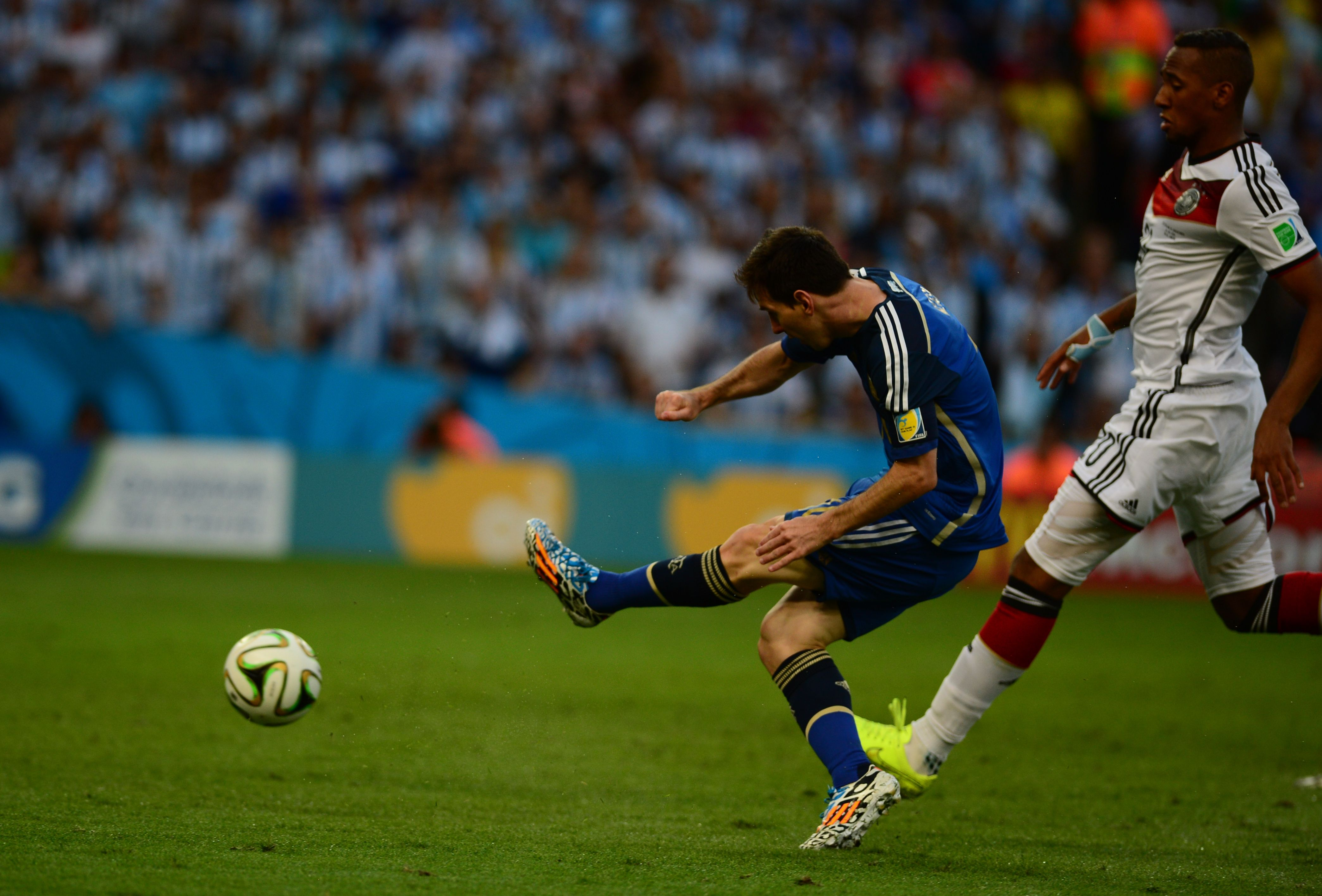 Germany and Argentina face off in the final of the World Cup